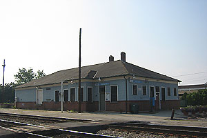 Toccoa, GA station building